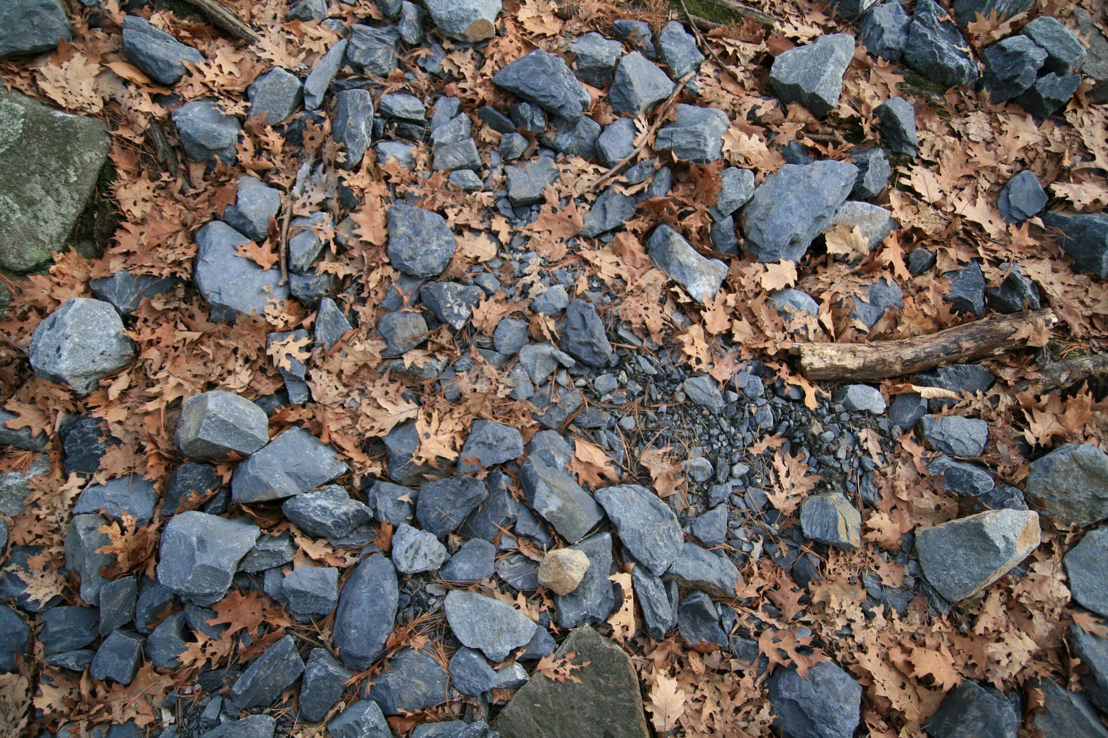 Blue rocks on Blue Hills.